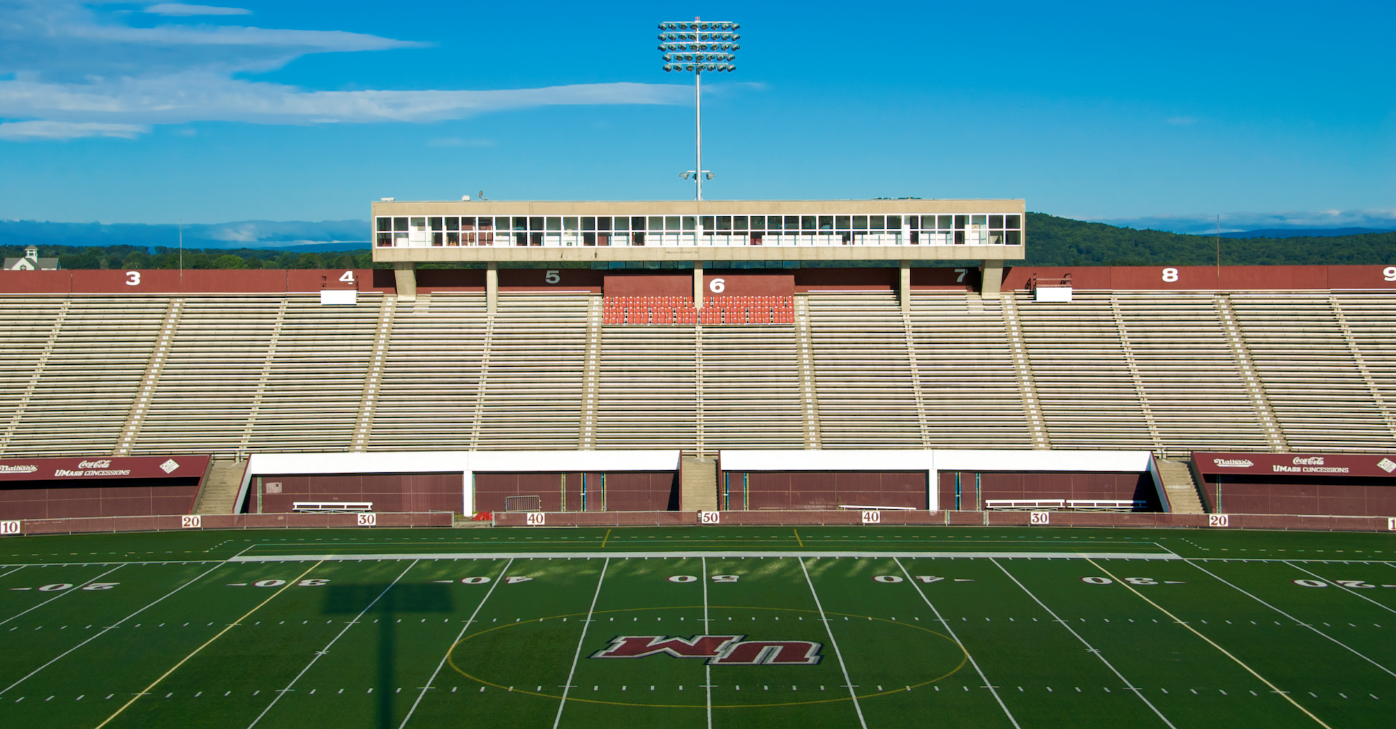 Warren McGuirk Alumni Stadium at the University of Massachusetts Amherst.